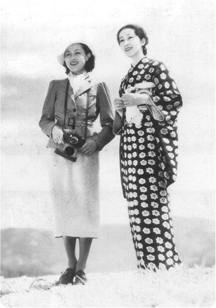 Yumeko Aizome (left) and Takako Irie in the 1937 film Kafuku zempen